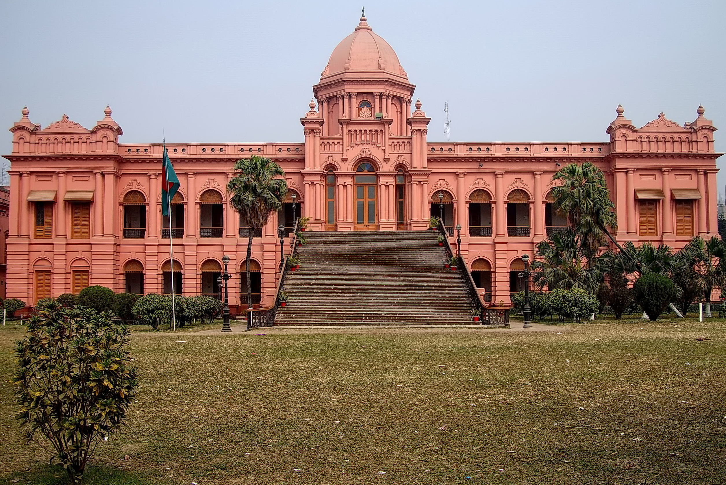 Ahsan Manjil- Front View